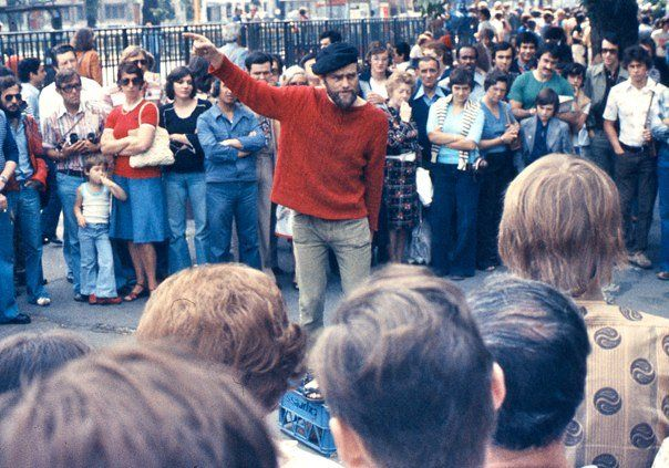 Crowd of people listen to a speaker, who is gesticulating, at Speakers Corner, Hyde Park, London, 1974